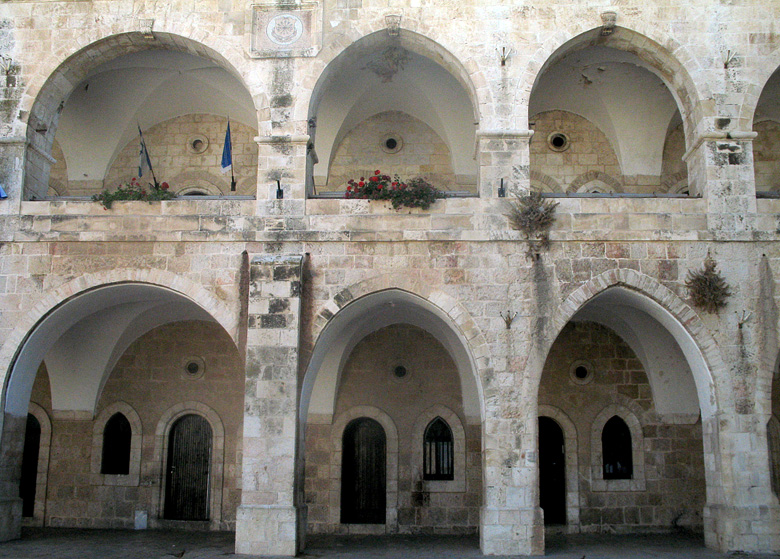 Batey Mahase, the old city of Jerusalem, Israel